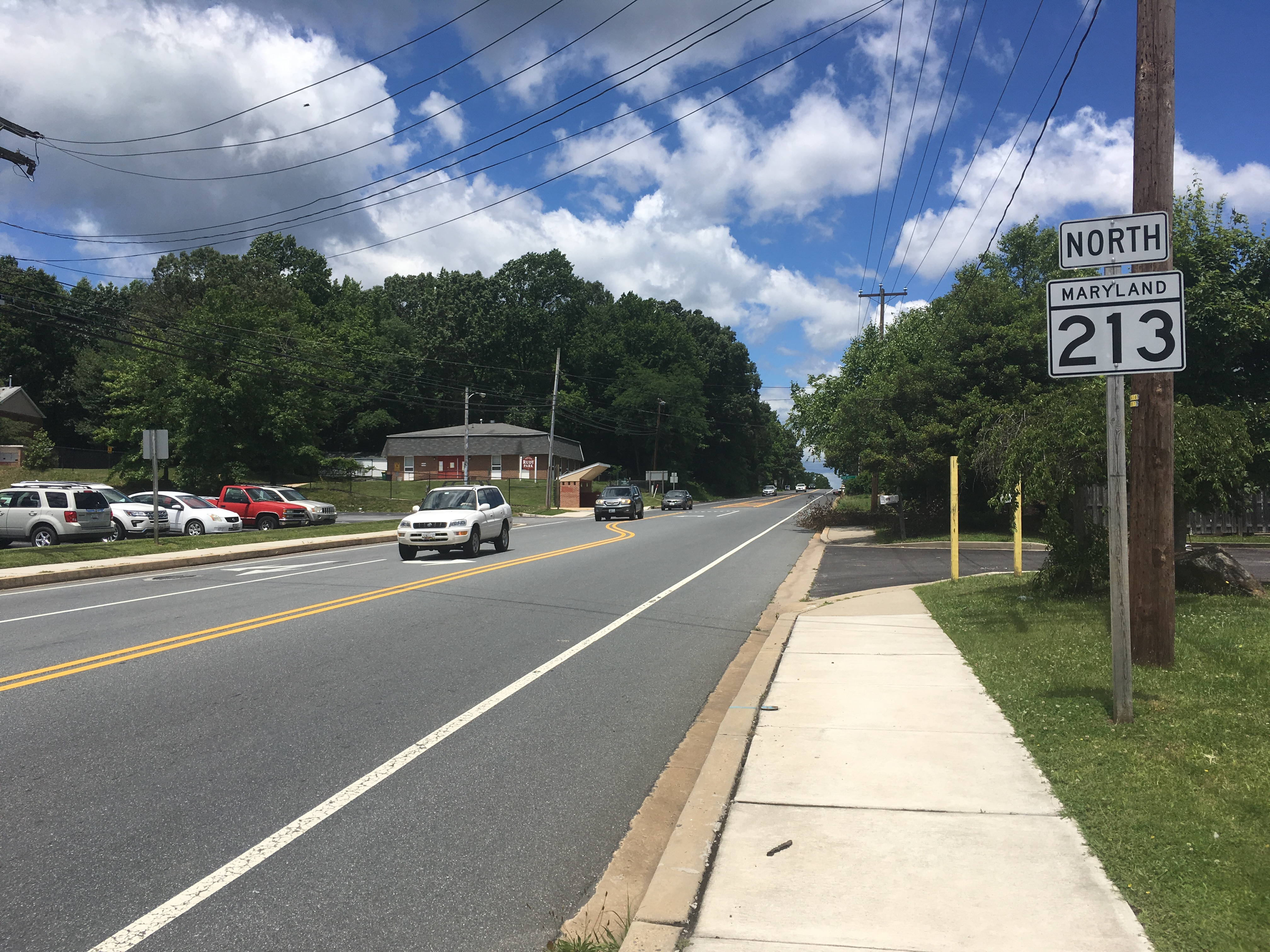 Northbound Maryland Route 213 (Bridge Street) past the intersection with Maryland Route 279 (Elkton Road/Newark Avenue) in Elkton, Maryland